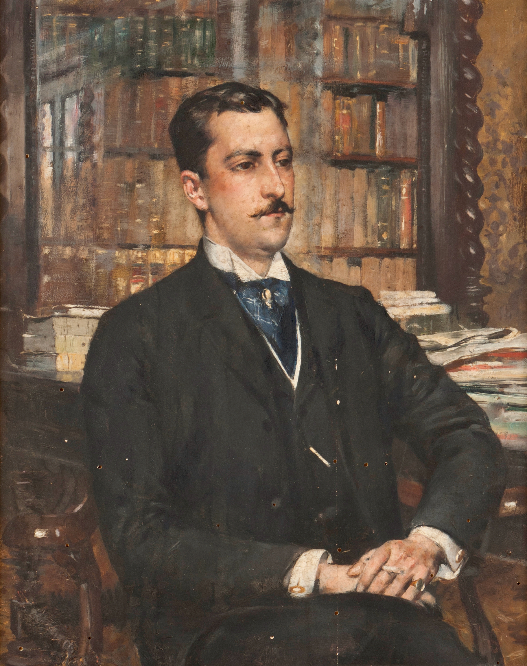 Oil on hardboard portrait of Duarte Borges Coutinho de Medeiros Sousa Dias da Camara, 2nd Marquis of Praia and Monforte, attributed to António Ramalho